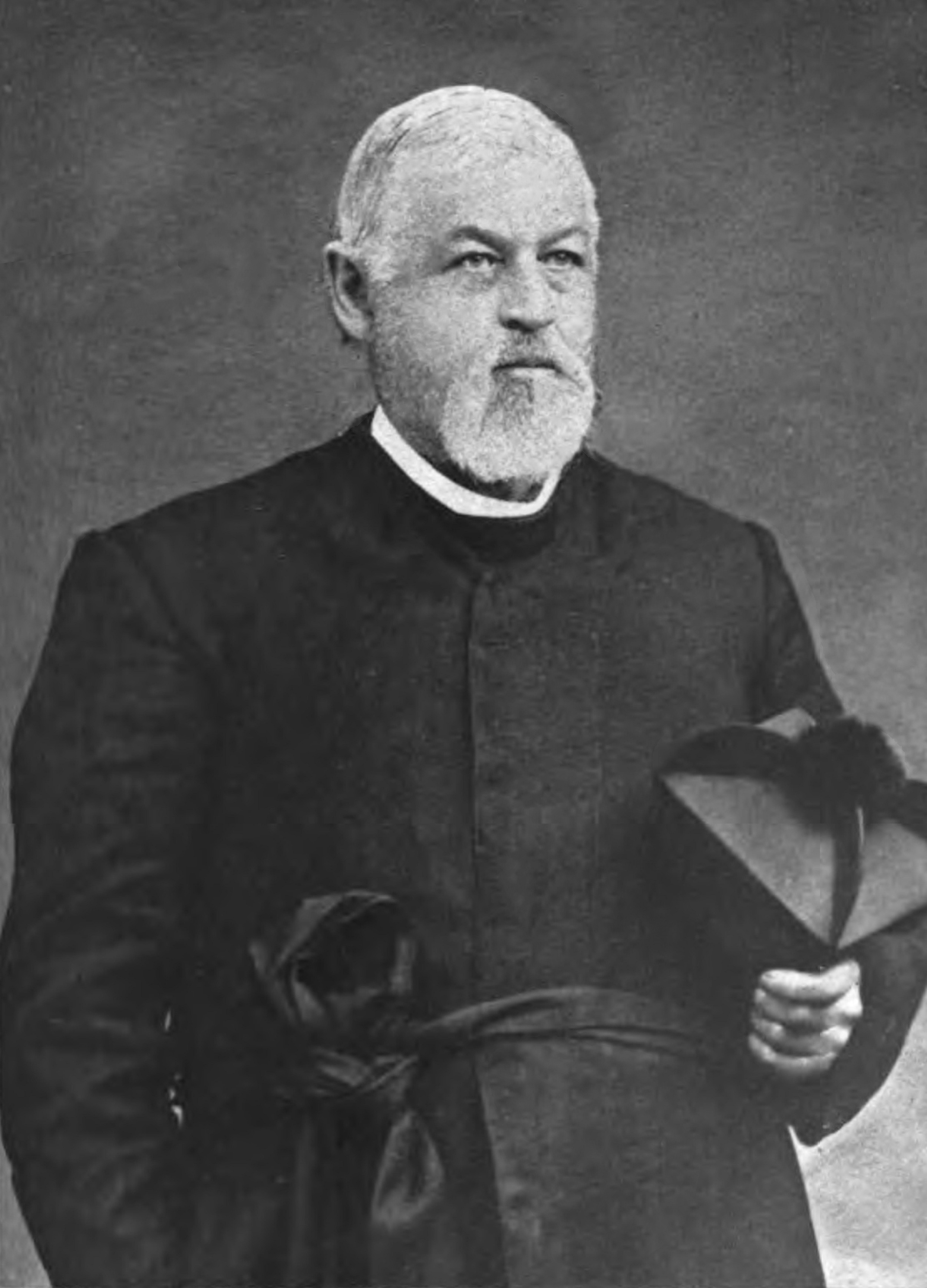 Hannibal Goodwin (1822–1900), was an Episcopal priest at the House of Prayer in Newark, New Jersey, patented a method for making transparent, flexible roll film out of nitrocellulose film base